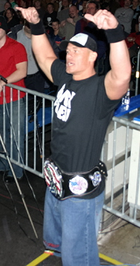 WWE United States Champion John Cena makes his entrance during a WWE house show held in Kitchener, Ontario, Canada on January 15, 2005.